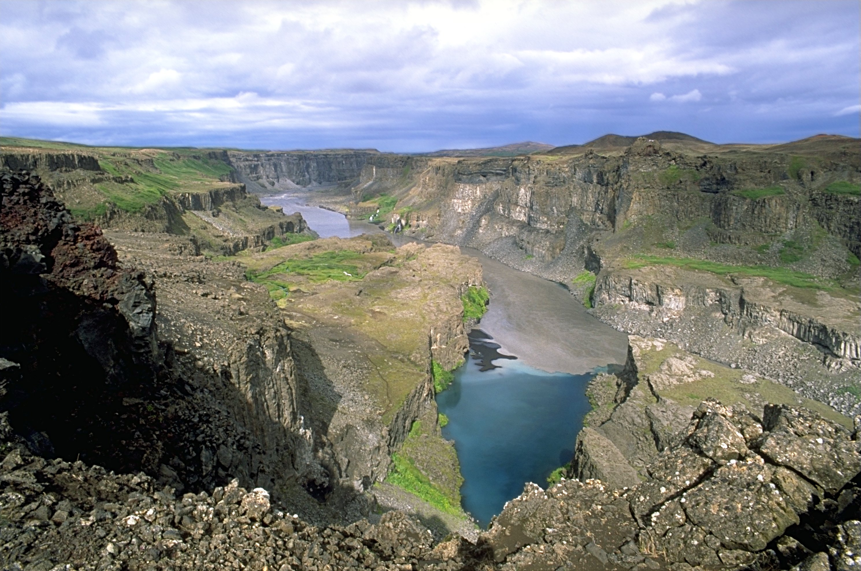 Hafragilsundirlendi, valley of Jökulsá á Fjöllum past Hafragilfoss, Jökulsárgljúfur National Park, Iceland Photo was taken using the following technique: Film: Fuji Velvia Lens: 2.0/20 Filter: Body: Minolta 600si Support: Gitzo Monotrek Image with Information in English Bild mit Informationen auf Deutsch